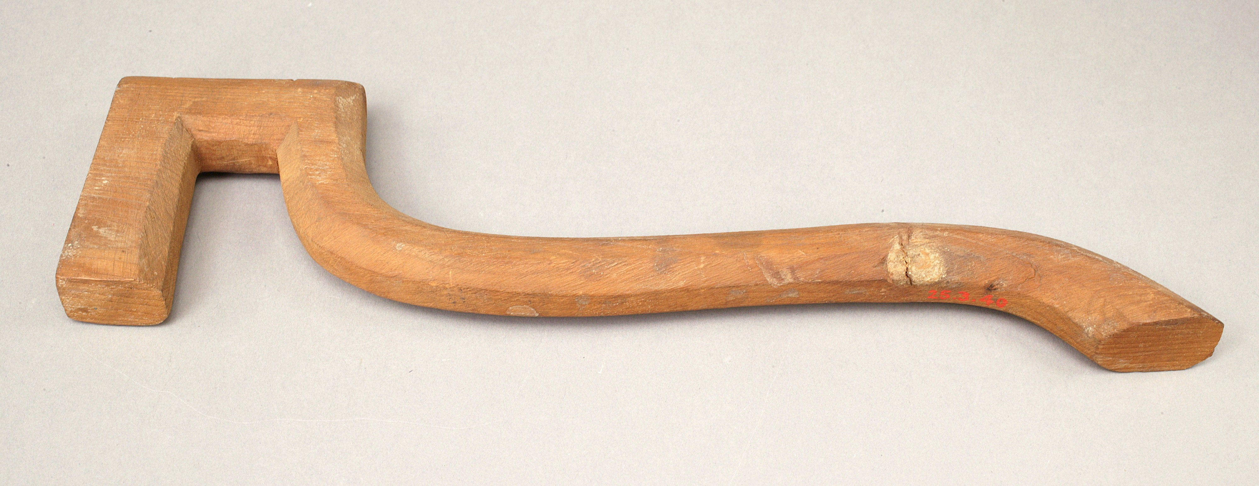 Tool, mesekhetyu, Hatshepsut foundation deposit